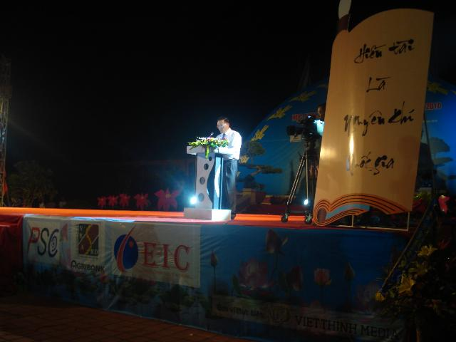 nhỏ|giữa|200px|lễ hội Trạng Trình